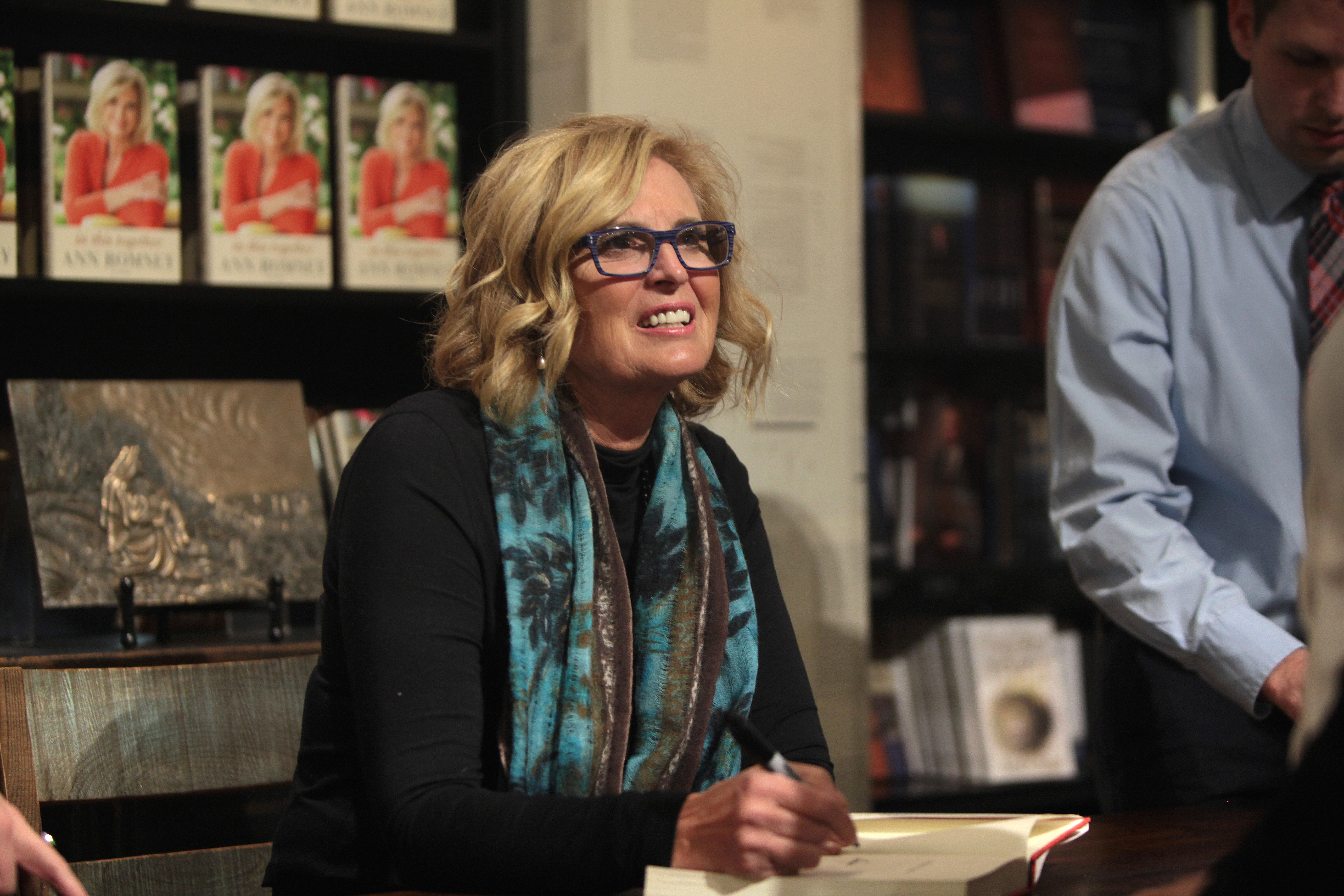 Ann Romney speaking at a book signing in Gilbert, Arizona.